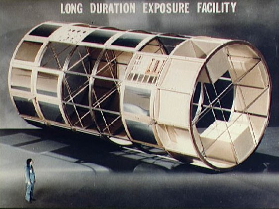 Artist concept of the Long Duration Exposure Facility (LDEF)